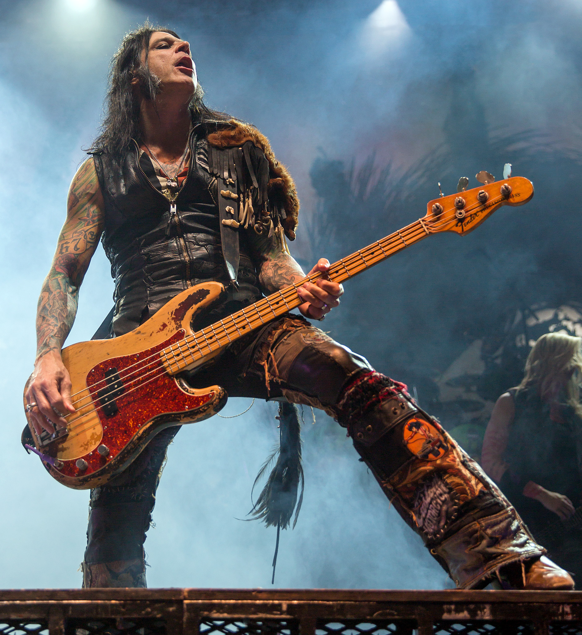 Chuck Garric of Alice Cooper performing in San Antonio, Texas 2015-02-11.